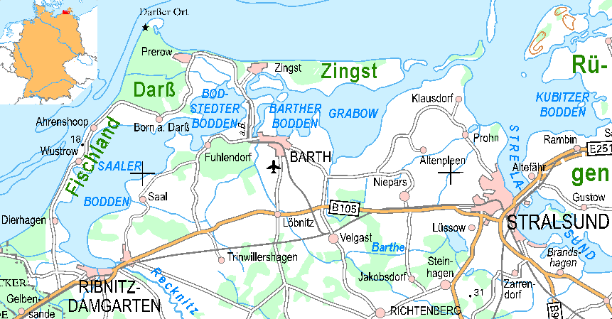 Cut of the survey map of Mecklenburg-Vorpommern 1:750.000